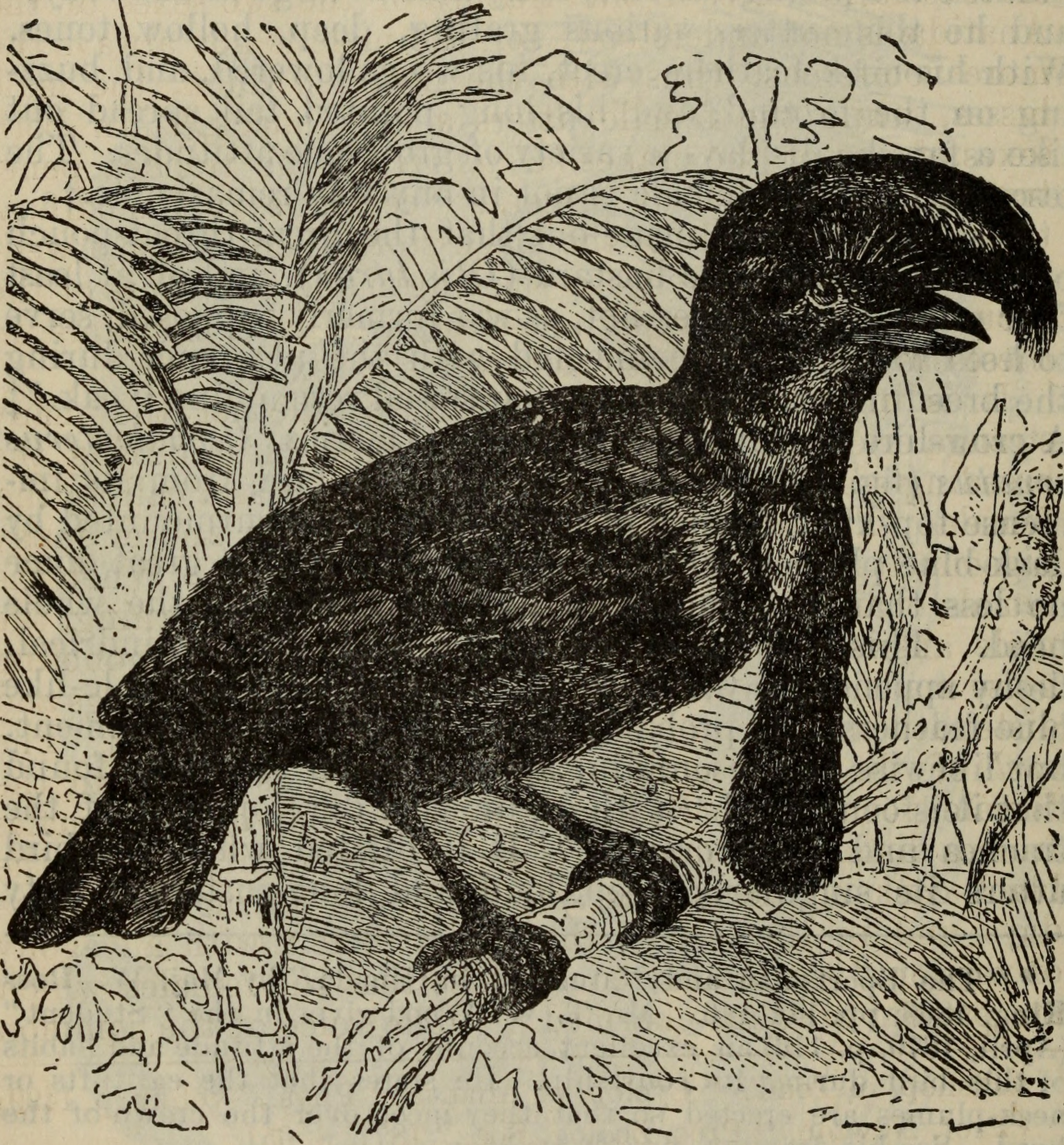 Title: The descent of man, and selection in relation to sex Year: 1874 (1870s) Authors: Darwin, Charles, 1809-1882 Subjects: Evolution; Natural selection; Heredity; Human beings; Sexual selection in animals; Sexual dimorphism (Animals); Sex differences Publisher: New York : A. L. Burt Text Appearing Before Image: 424 THE DESCENT OF MAN, note. The liead-crest and necK-appendage are rudimentary in the female.* The vocal organs of various web-footed and wading birds are extraordinarily complex, and differ to a certain extent in the two sexes. In some cases the trachea is convoluted. Text Appearing After Image: Pig. 40. The Umbrella-bird or Cephalopterus ornatus, male (from Brehm). like a French horn, and is deeply embedded in the sternum. In the wild swan (Cyg7ius ferus) it is more deeply embedded in the adult male than in the adult female or * Bates, **The Naturalist on tlie Amazons/' 1863, vol. ii, p. 284; Wallace, in ** Proc. Zool. Soc," 1850, p. 206. A new species, with a still larger neck ap))endage (G. peuduliger), hfts Ititely been (iis- ^vered, see Ibiij,*' vol. 1, p. 40^